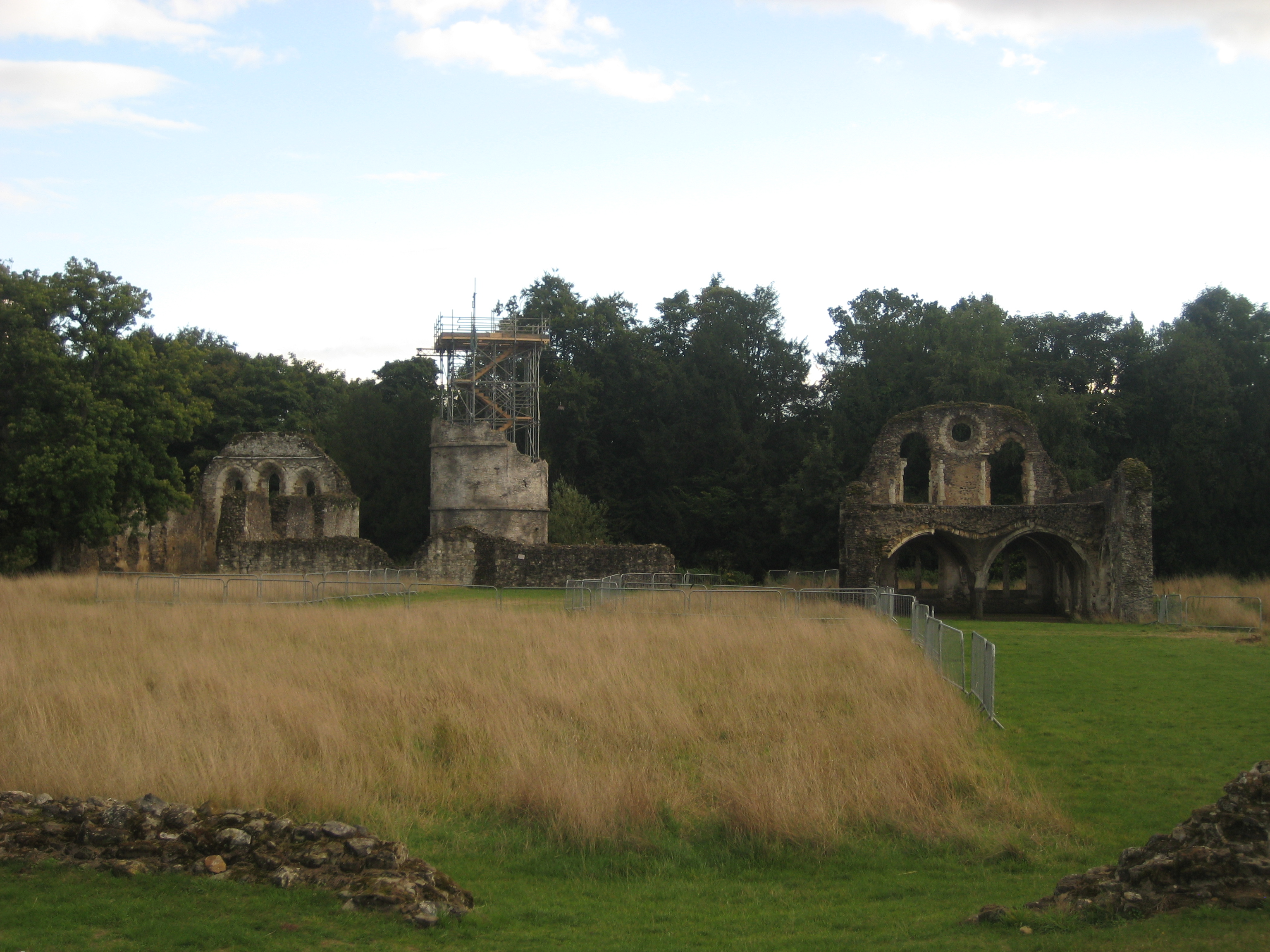 Set of the film, Into the Woods (2014) under construction at Waverley Abbey, Farnham, Surrey. The artificial tower between the abbey's dorter on the left and the refectory on the right is Rapunzel's Tower.